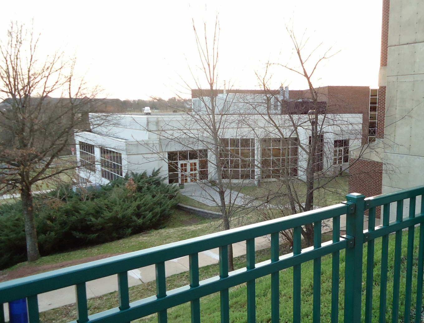 Raritan Valley Community College, in Branchburg, Somerset County, New Jersey, view of the Conference Center, a small portion of the greater campus.